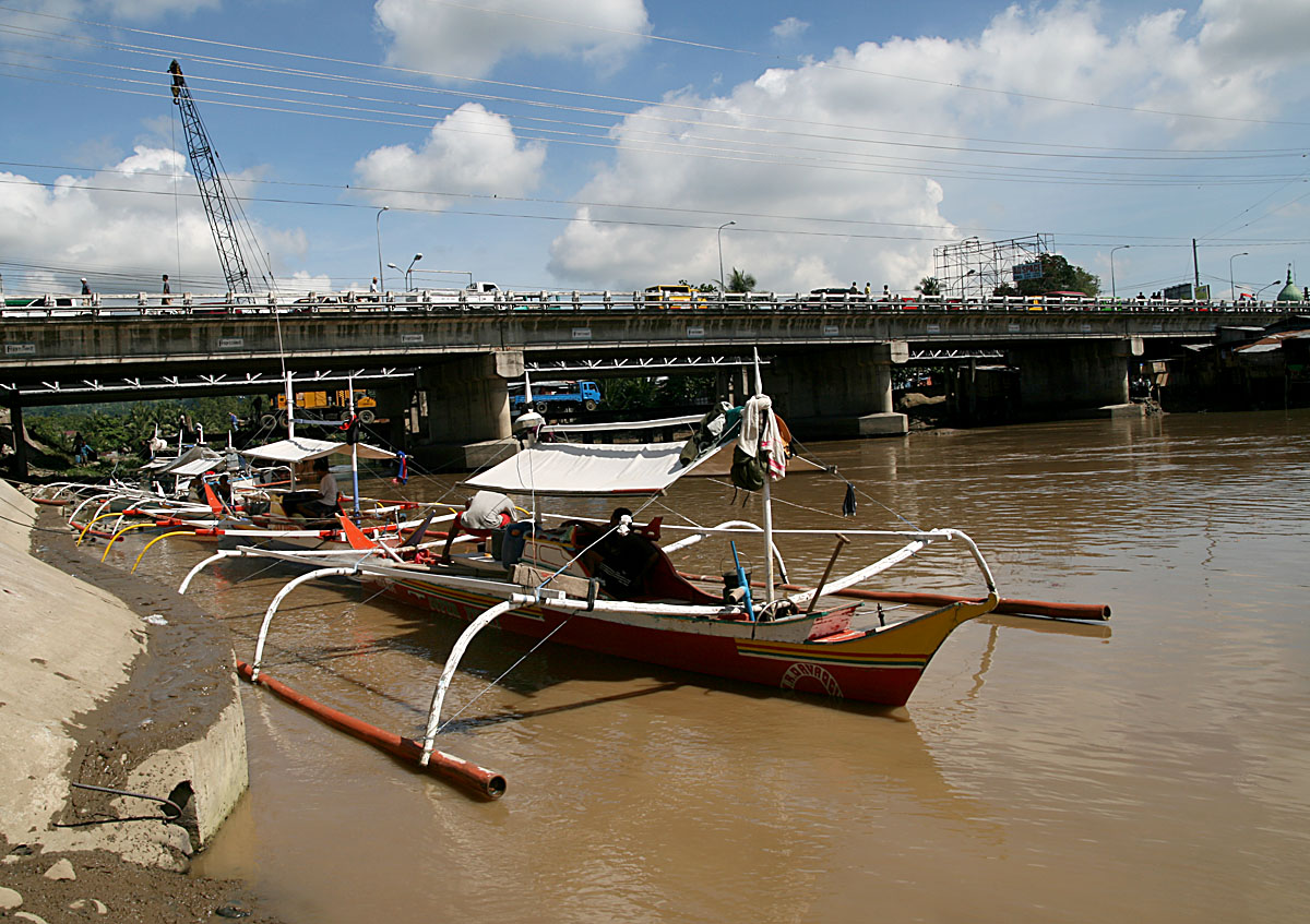 Filipino fishing boats with outriggers dock along Davao River in Davao City.